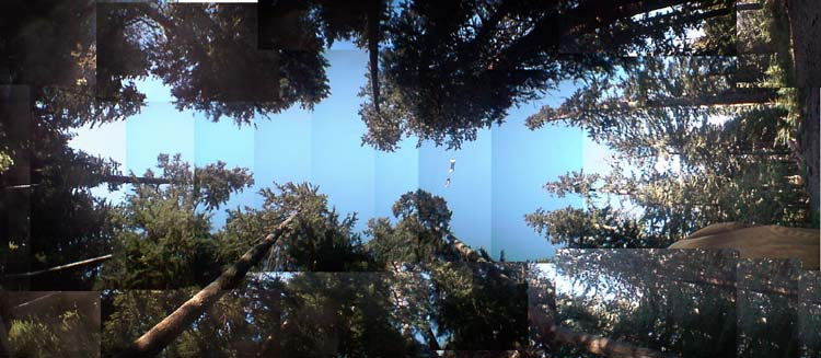 digital composite of red cloud thunder/fall creek circle of trees Located in Lane County